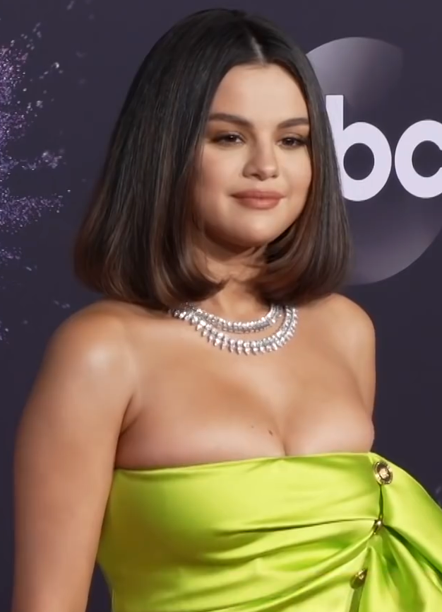 Selena Gomez at the 2019 American Music Awards